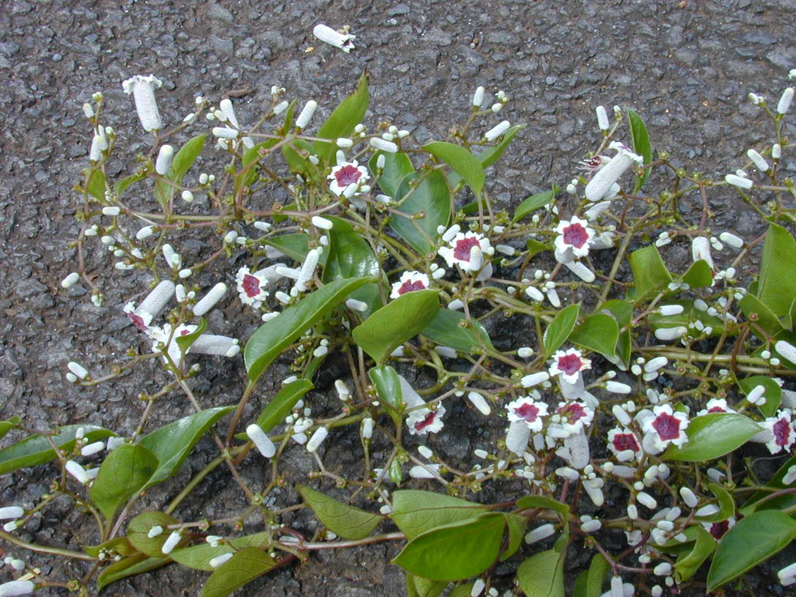 Paederia foetida (flowers and leaves). Location: Maui, Makawao